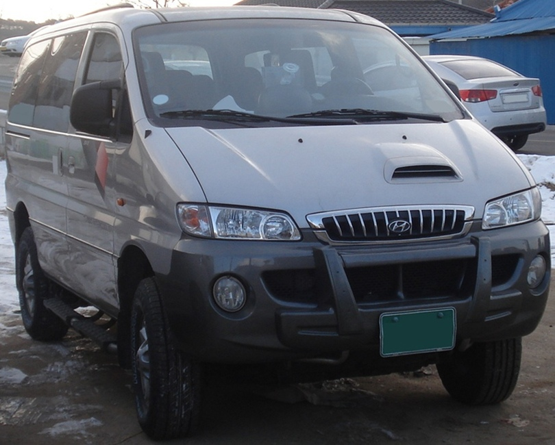 Hyundai Starex